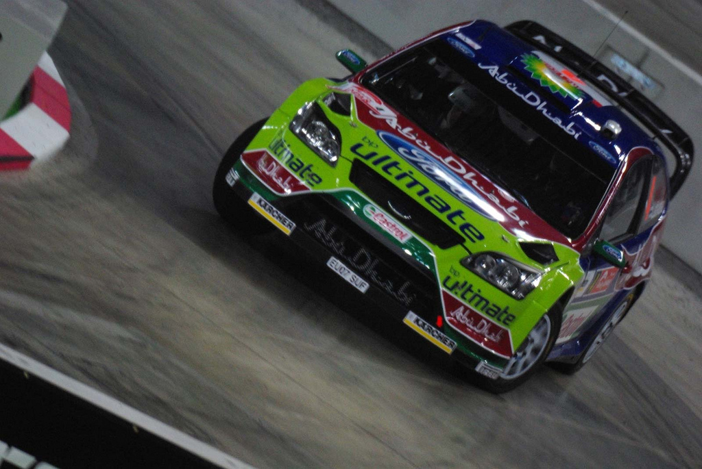 Jari-Matti Latvala driving his Ford Focus RS WRC 08 at a Sapporo Dome super special stage of the 2008 Rally Japan.